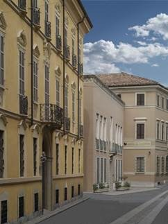 Palazzo Galli